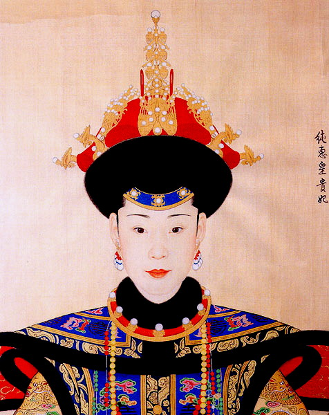 The Official Imperial Portrait of Qing Dynasty's Imperial Consorts